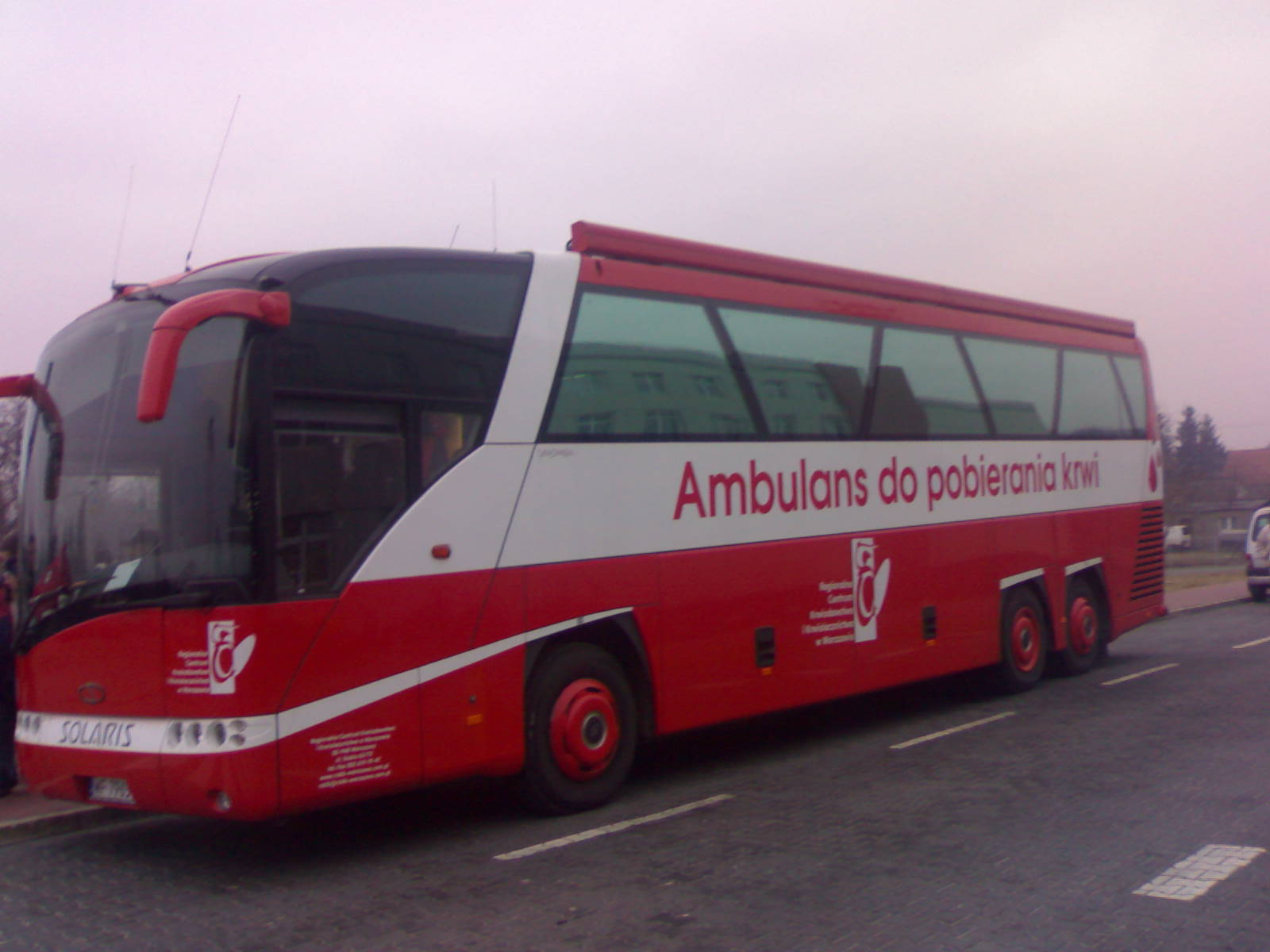 Mobile blood donation unit in Grodzisk Mazowiecki. Solaris Vacanza 13 02-V1/003 coach built 2006, RCKiK Warszawa operator.